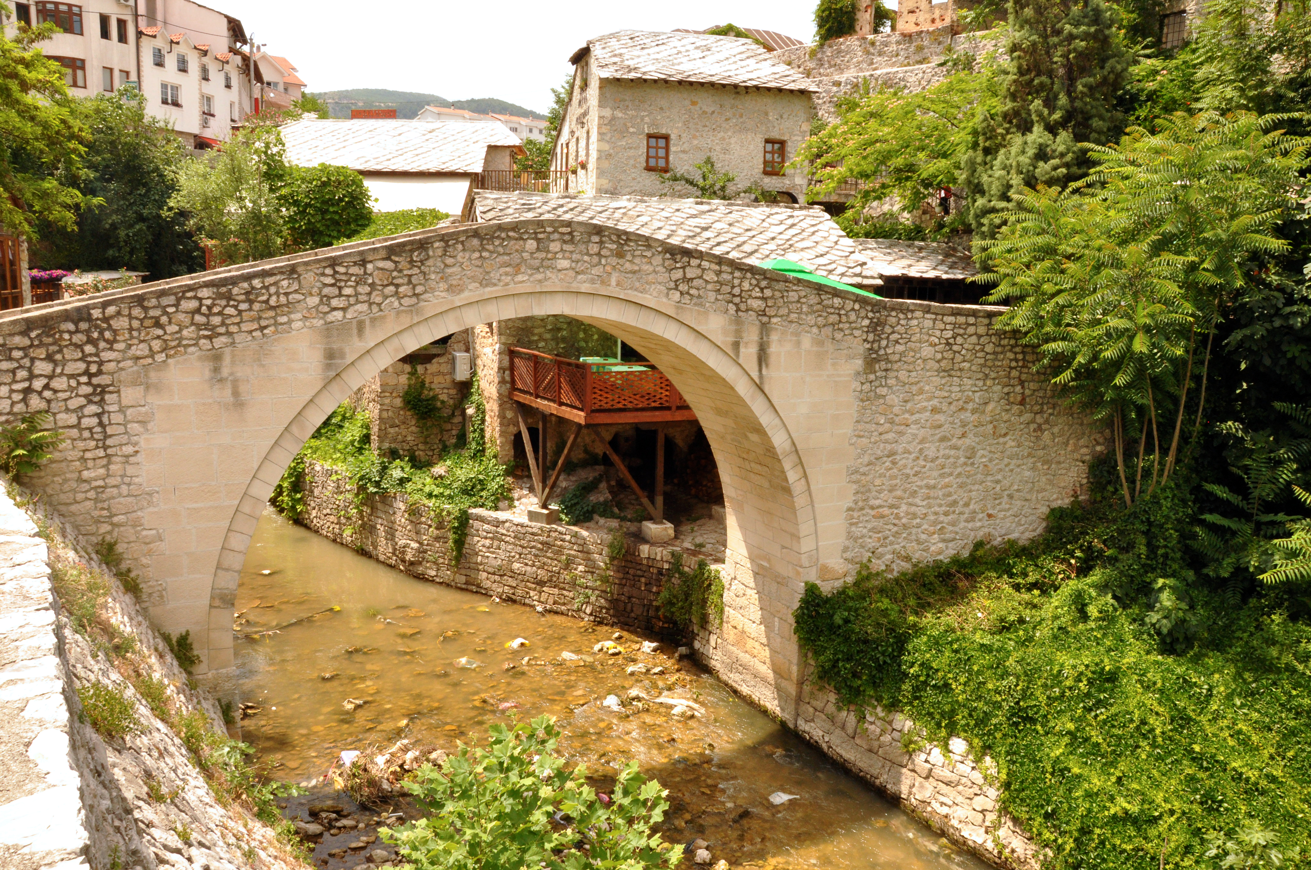 The oldest single arch stone bridge in Mostar, the Kriva Cuprija, is believed to have been built in 1558. It is said that this was to be a test before the major construction of the Stari Most began.